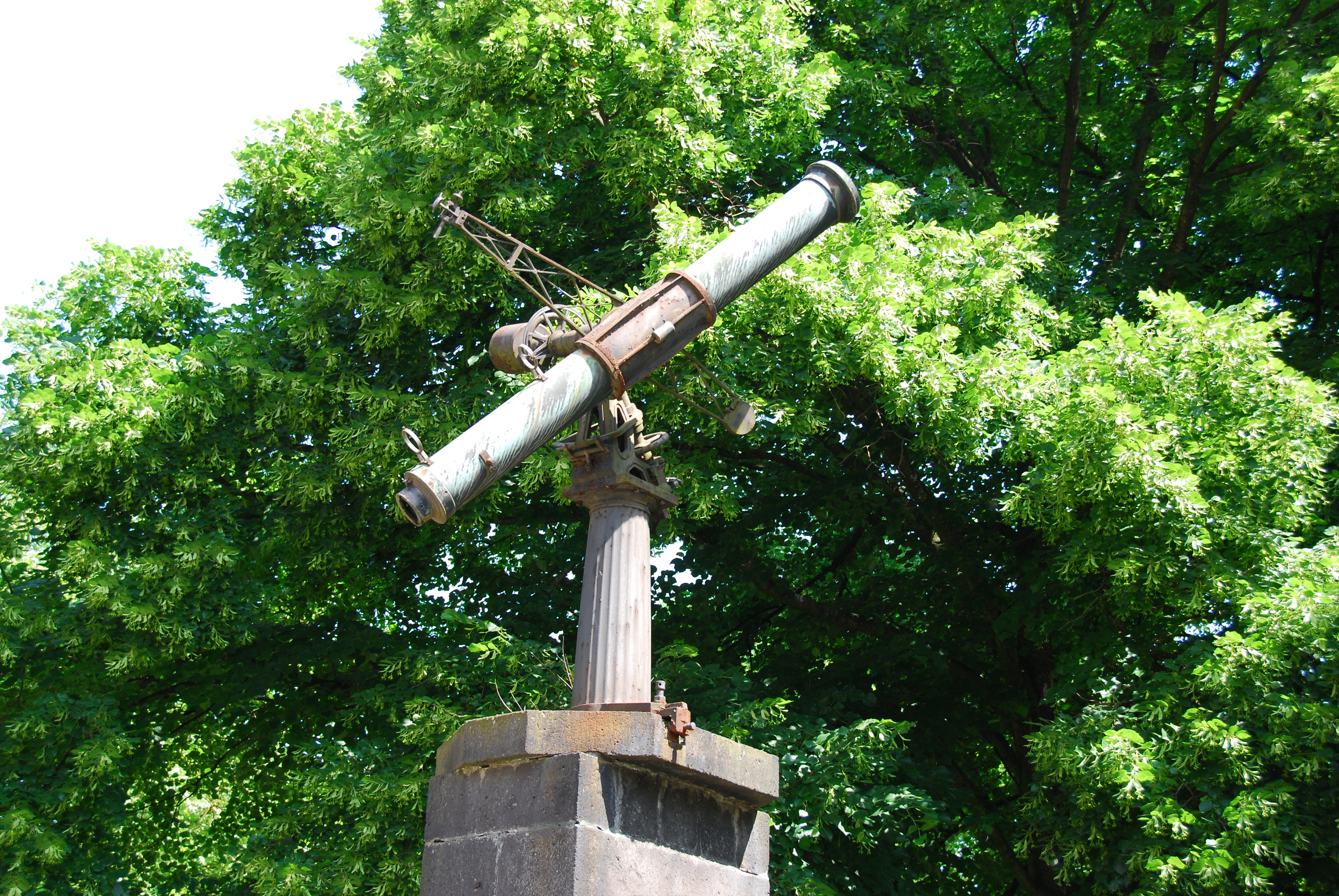 closeup of the burnt telescope